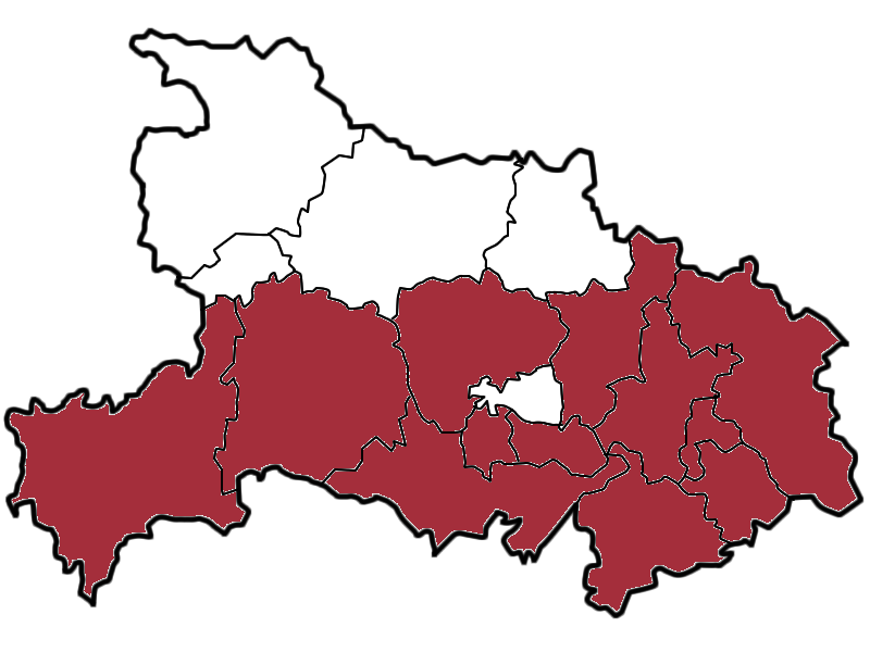 Cities under quarantine in Hubei region due to coronavirus outbreak. Map drawn using data about quarantine[1][2] and File:Region of Hubei.png